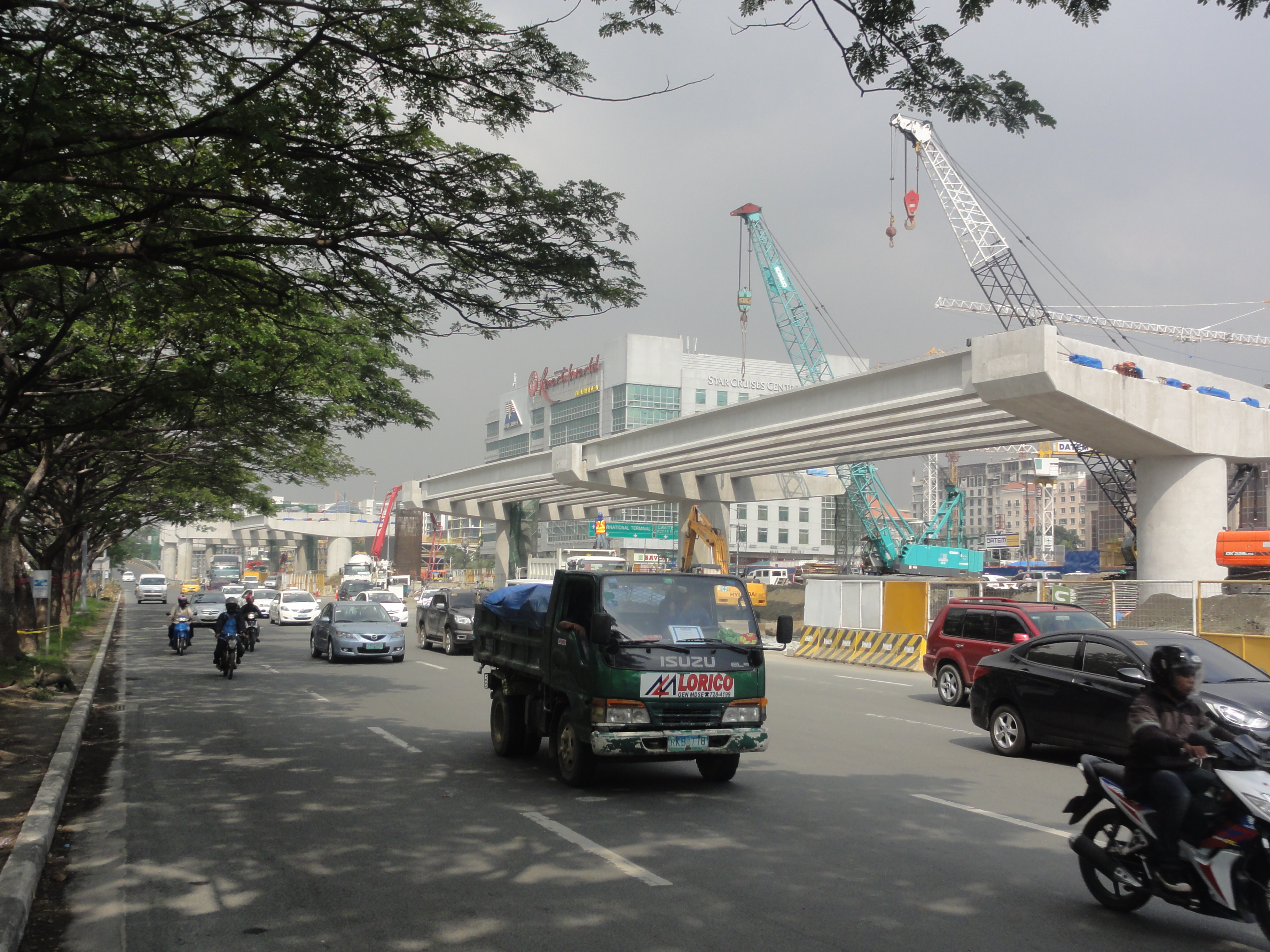 Construction of NAIA Expressway in Pasay City